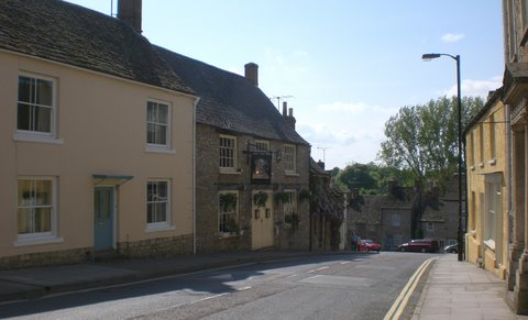 Malmesbury High Street